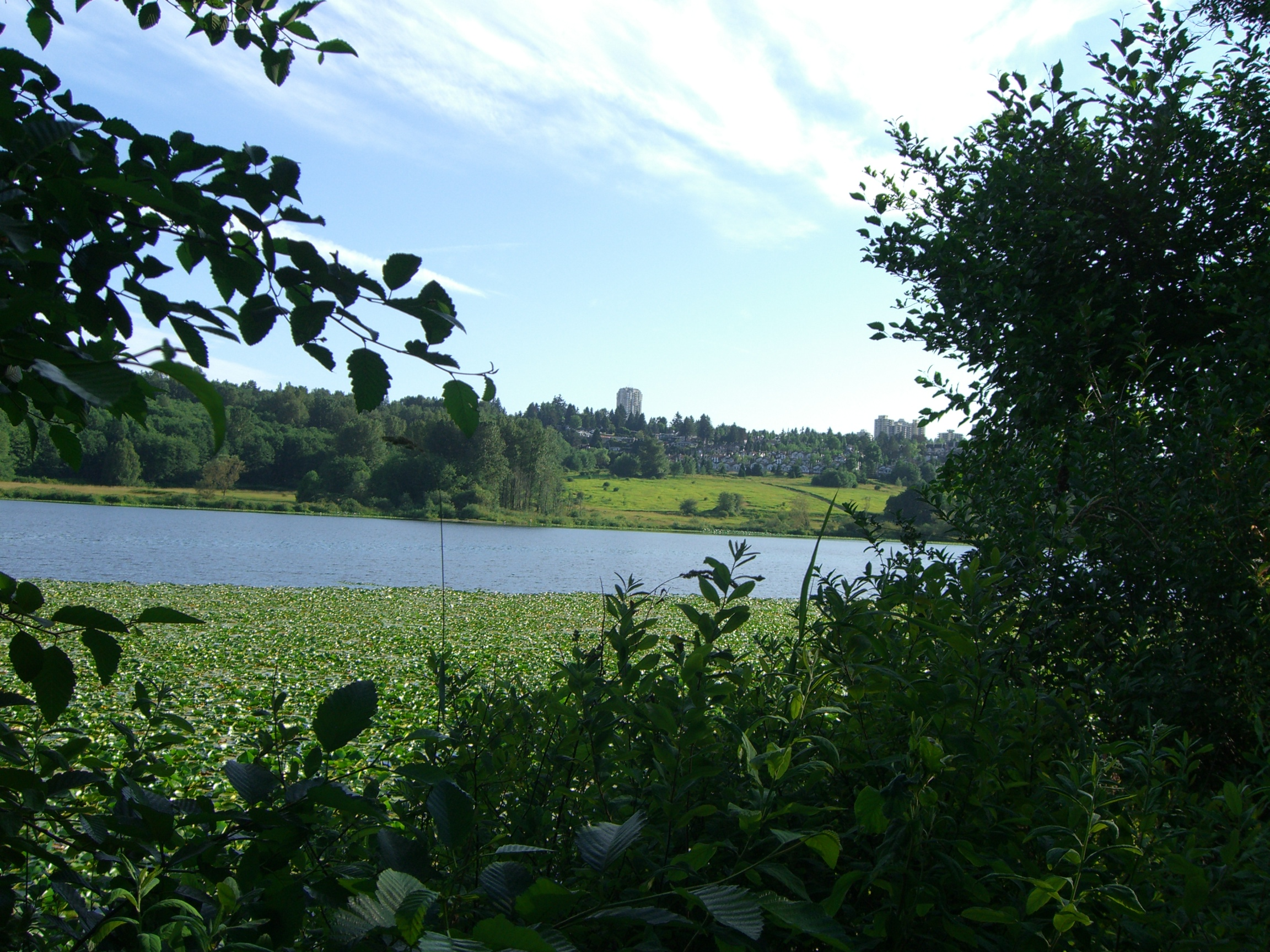 Deer Lake, Burnaby, British Columbia, Canada